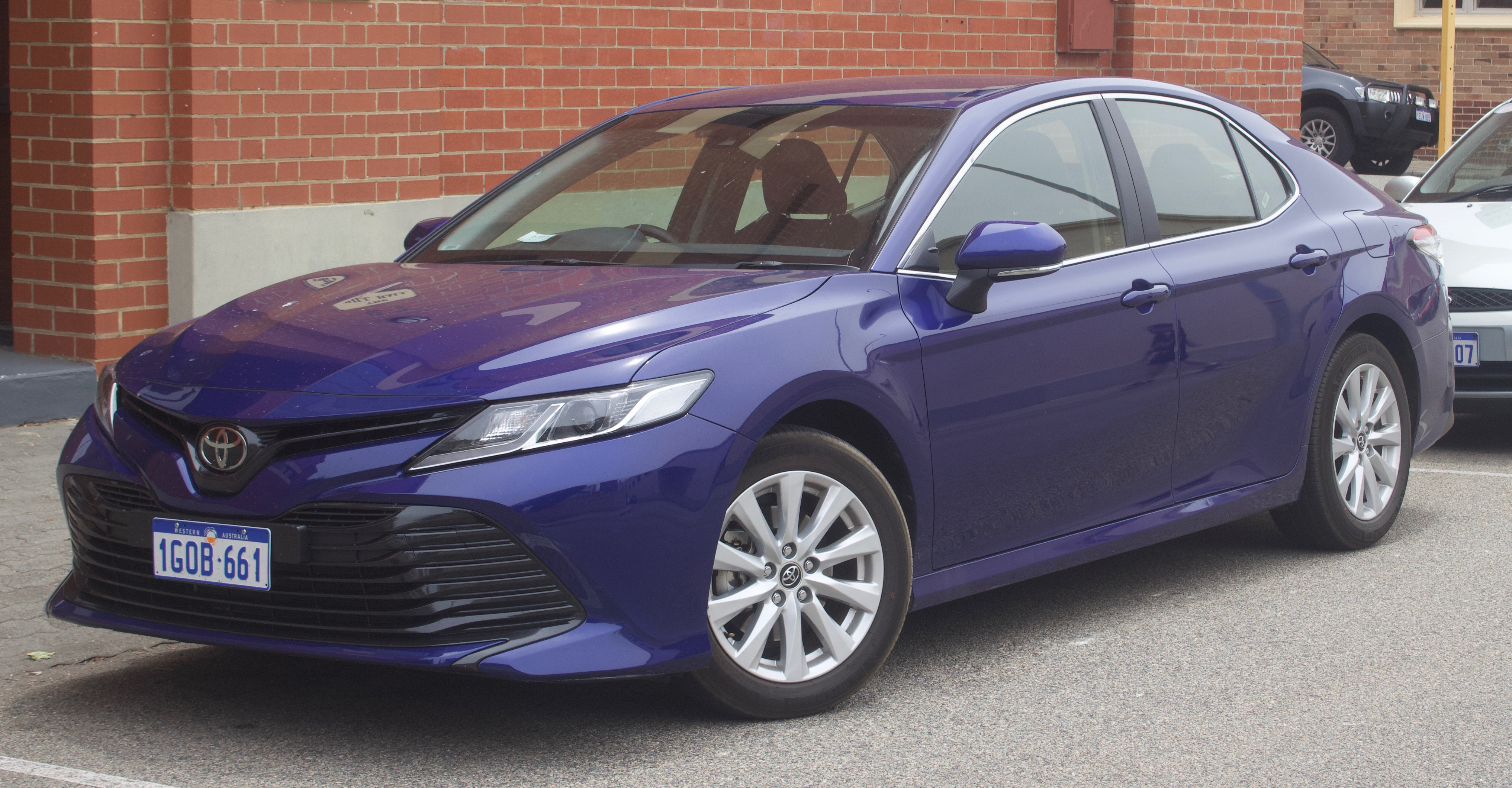 2018 Toyota Camry (ASV70R) Ascent sedan. Photographed in Fremantle, Western Australia, Australia.